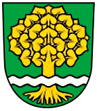 Coat of Arms of Ilmtal (Gemeinde)